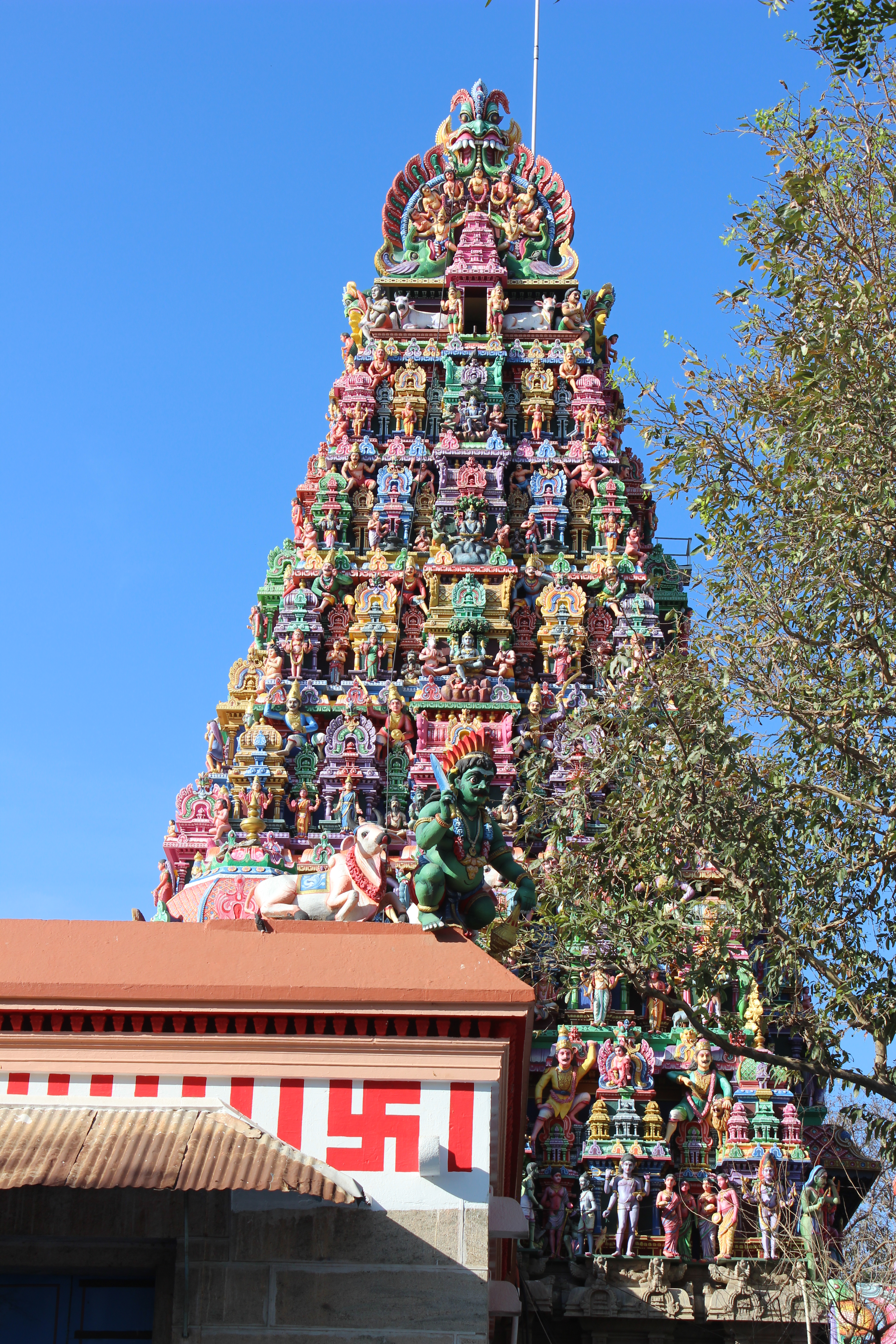 Pillaiyarpatti Karpaga Vinayagar Temple Gopuram Sideview